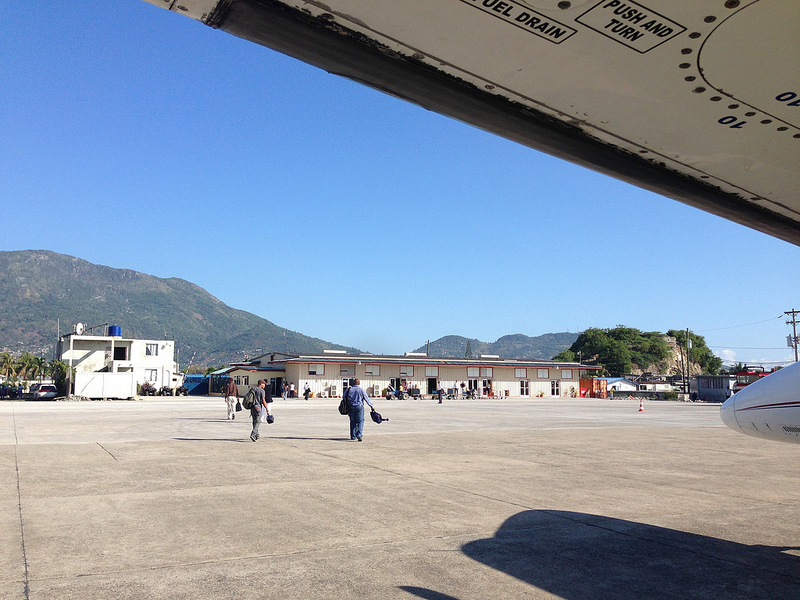 The airport at Hugo Chavez Int'l Airport in May 2013